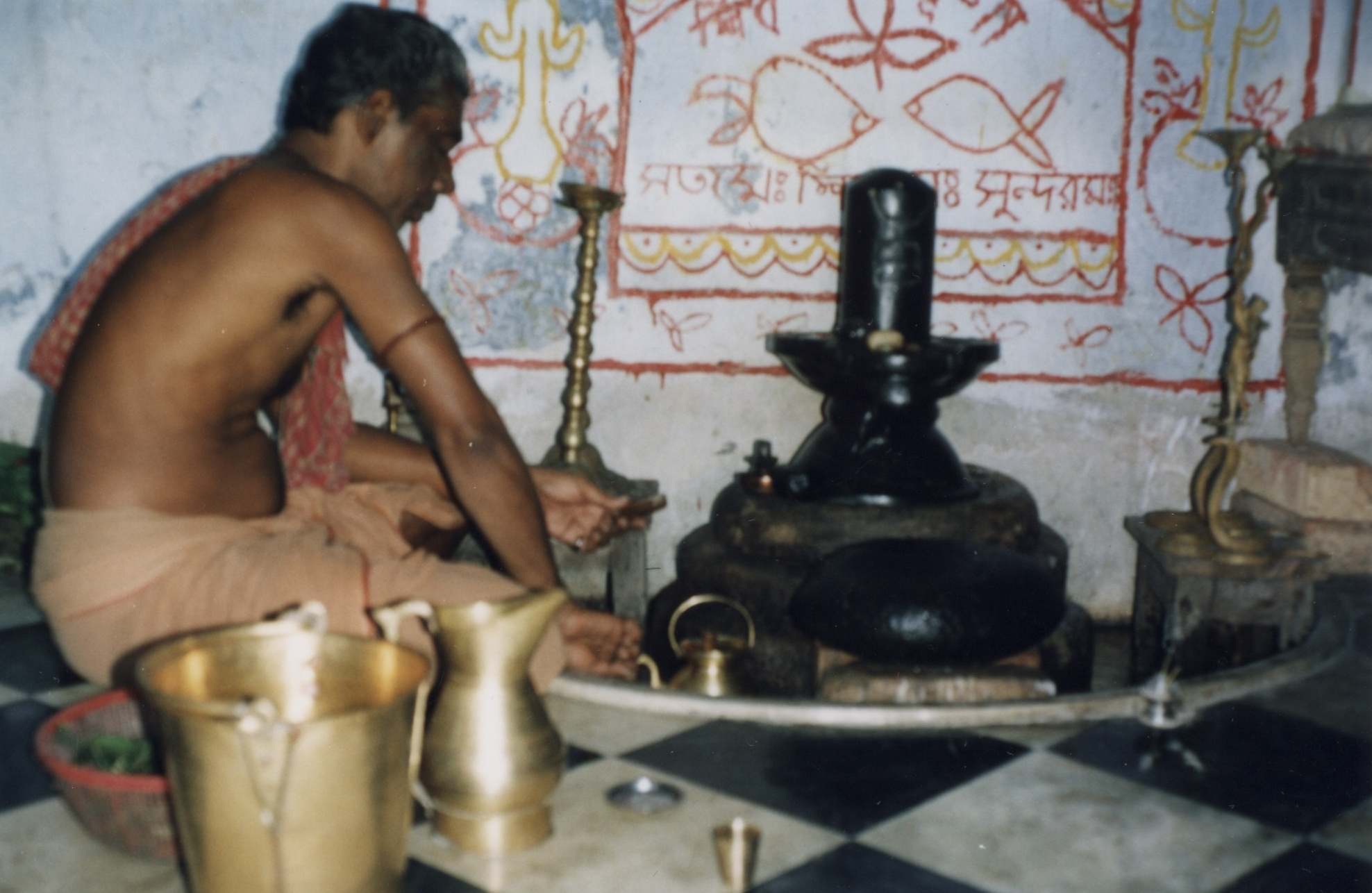 priest performs Shivapuja, worship of Shiva in his linga form, in a villagetemple in Westbengal